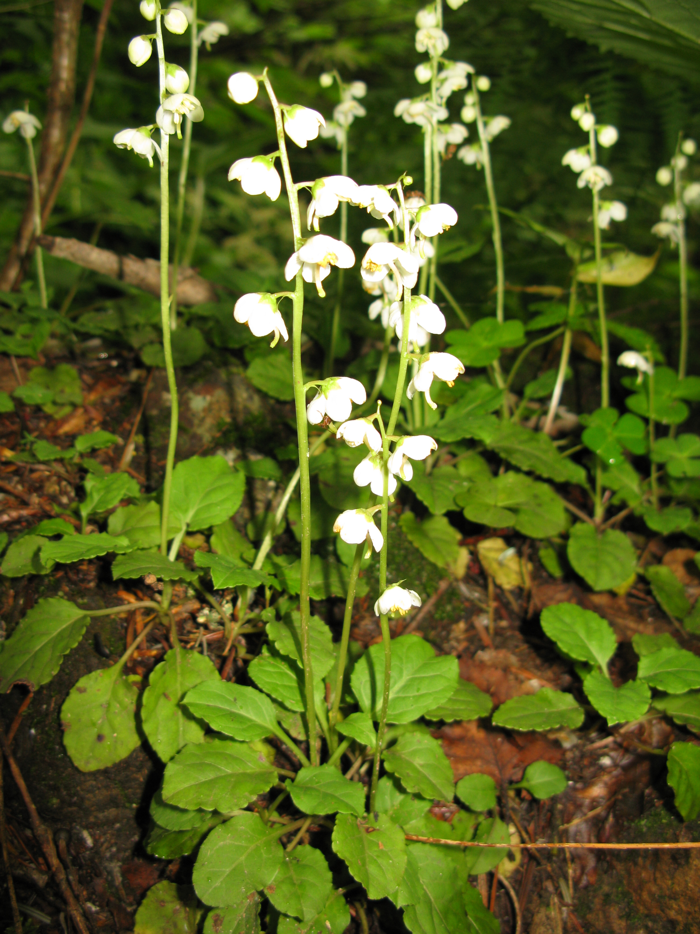 Pyrola alpina, Mount Hiuchi, Fukushima pref., Japan